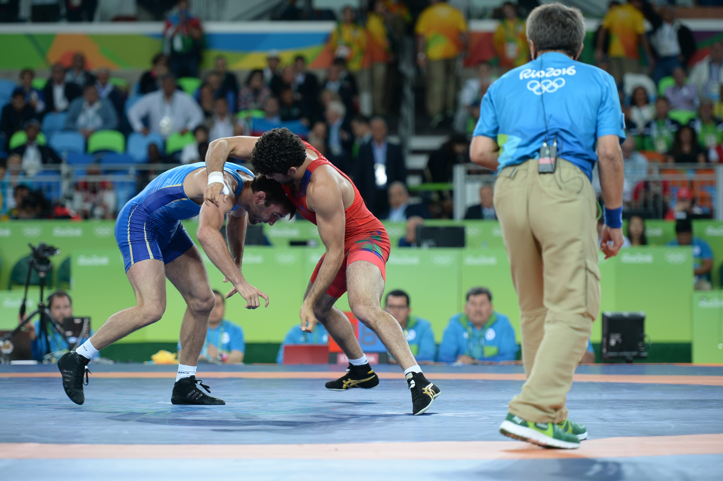 Wrestling at the 2016 Summer Olympics, Asgarov vs Ramonov